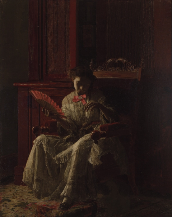 "Katherin" by Thomas Eakins